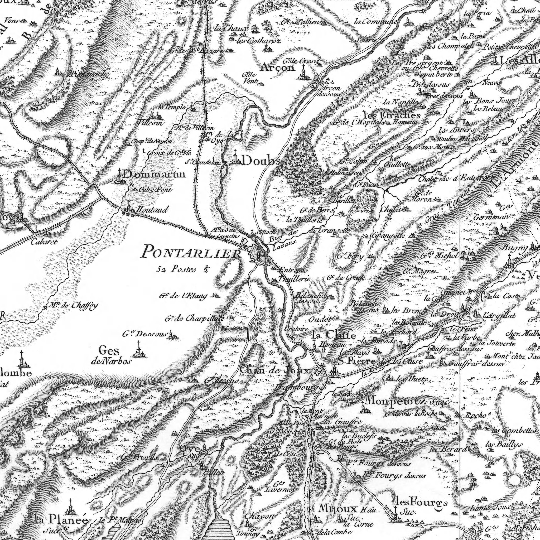 Surroundings of Pontarlier in the map of Cassini of Besançon (n°146).